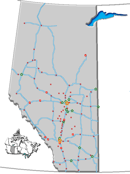 Map of Alberta with cities, towns and highways